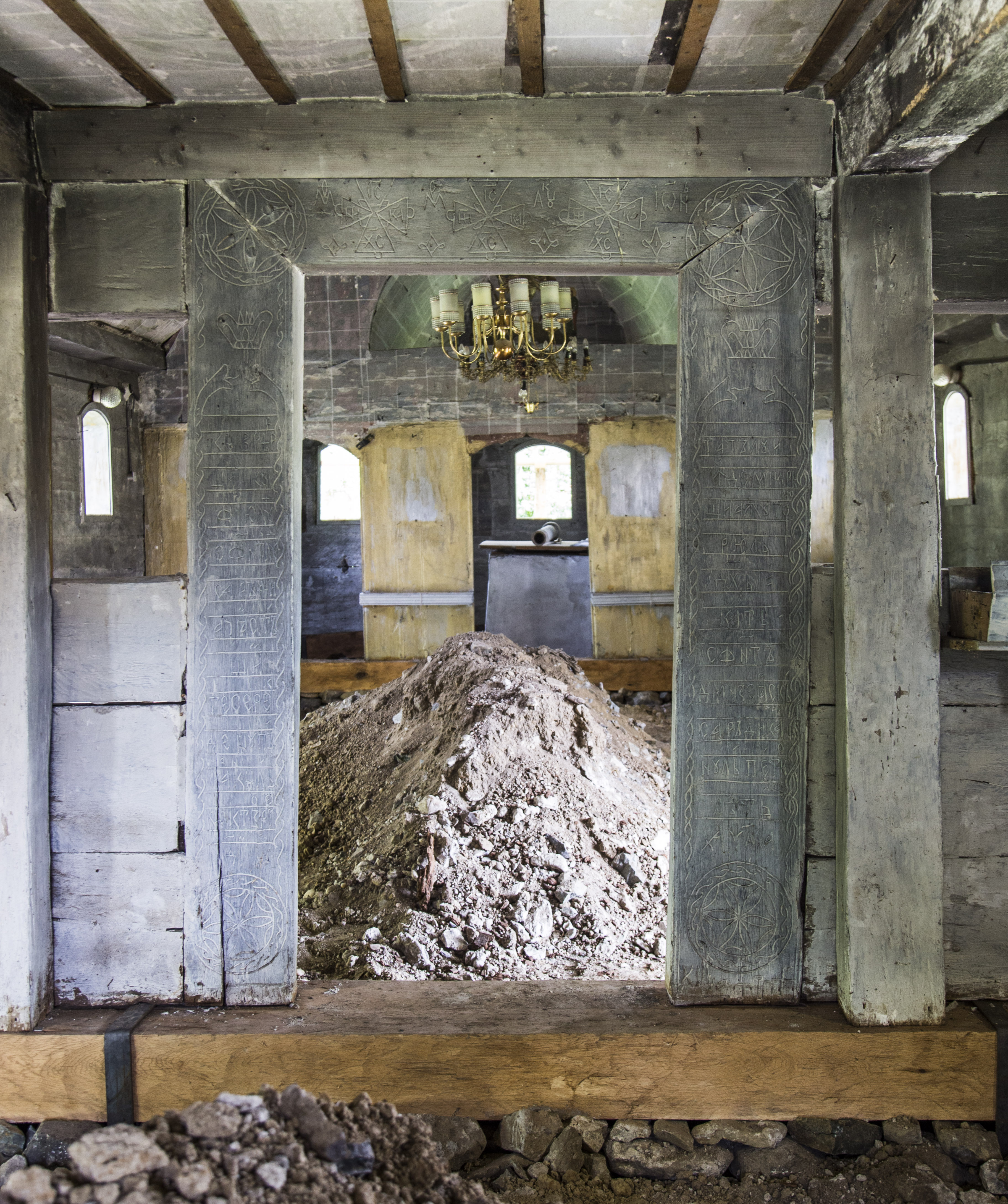 Wooden church in Groși, Timiș county, Romania.